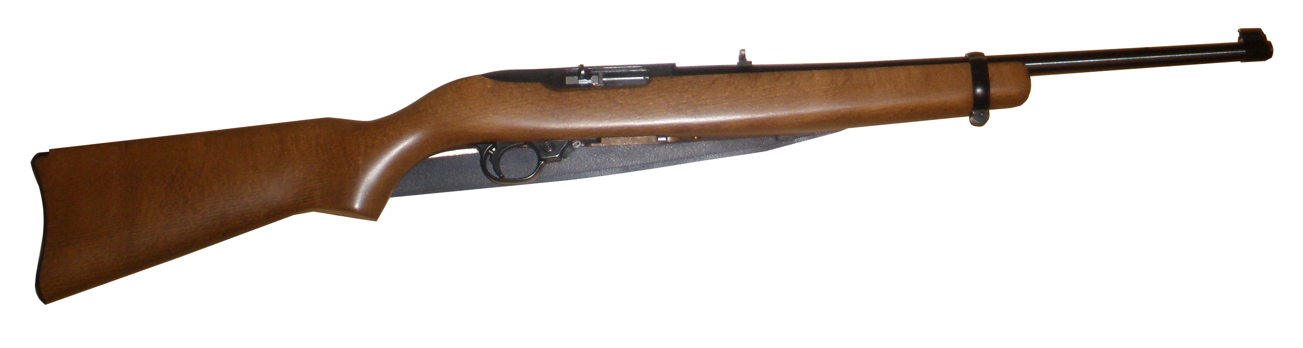 Ruger 10/22 rifle